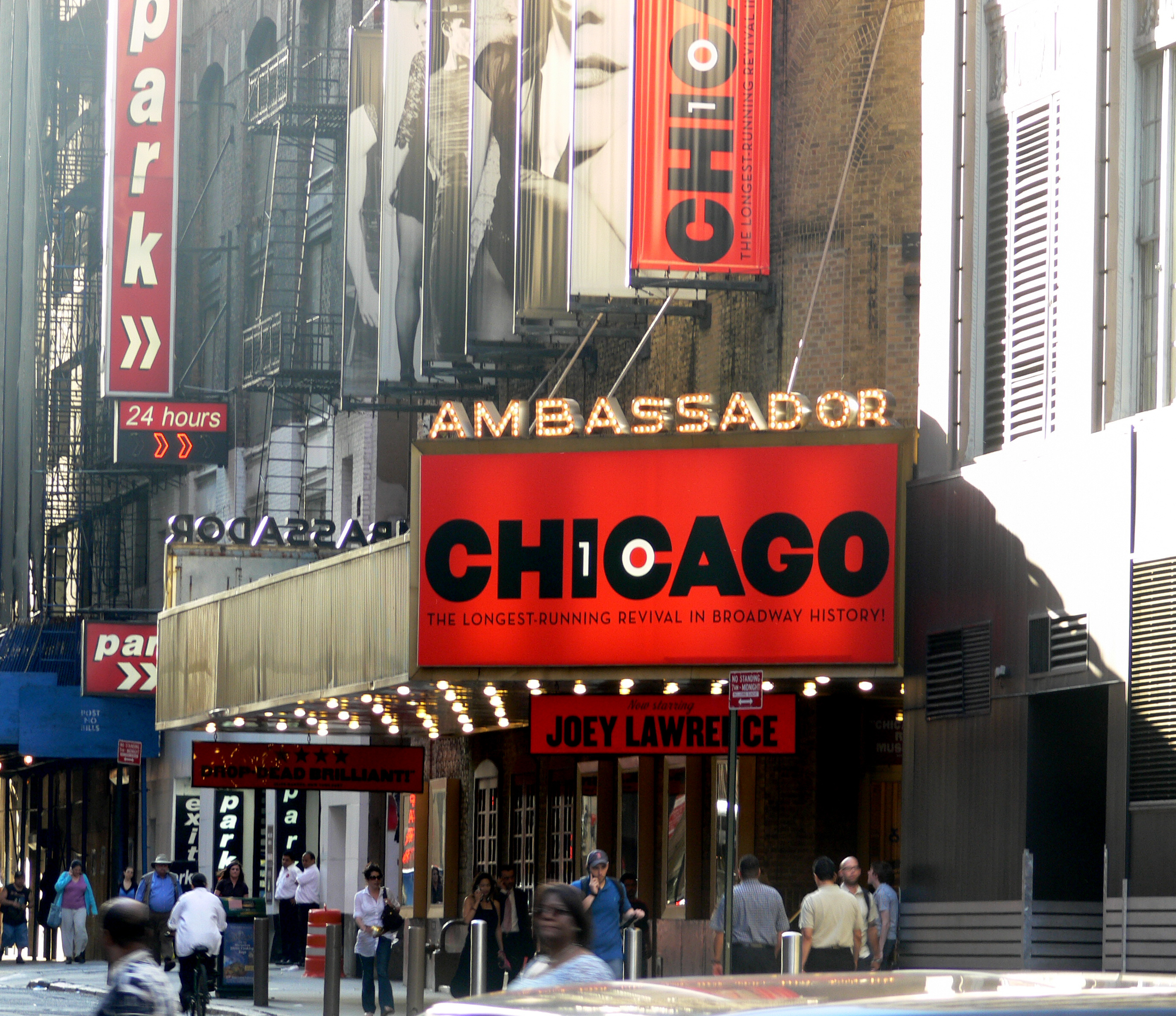 Ambassador Theatre, showing the musical Chicago 219 West 49th Street, Manhattan, New York City